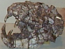 Chinquodon skull